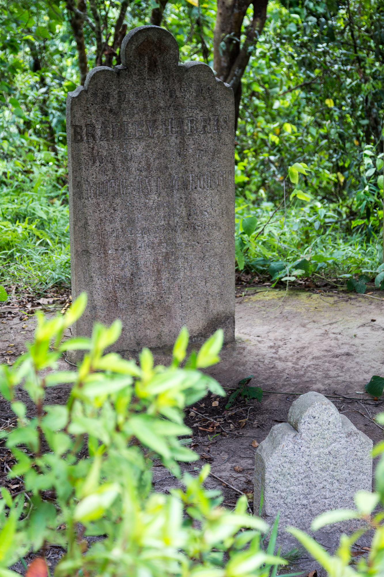 Kimanis, Sabah: Tombstone of Thomas Bradley Harris among the nipah palms on Governor's Hill in Kimanis